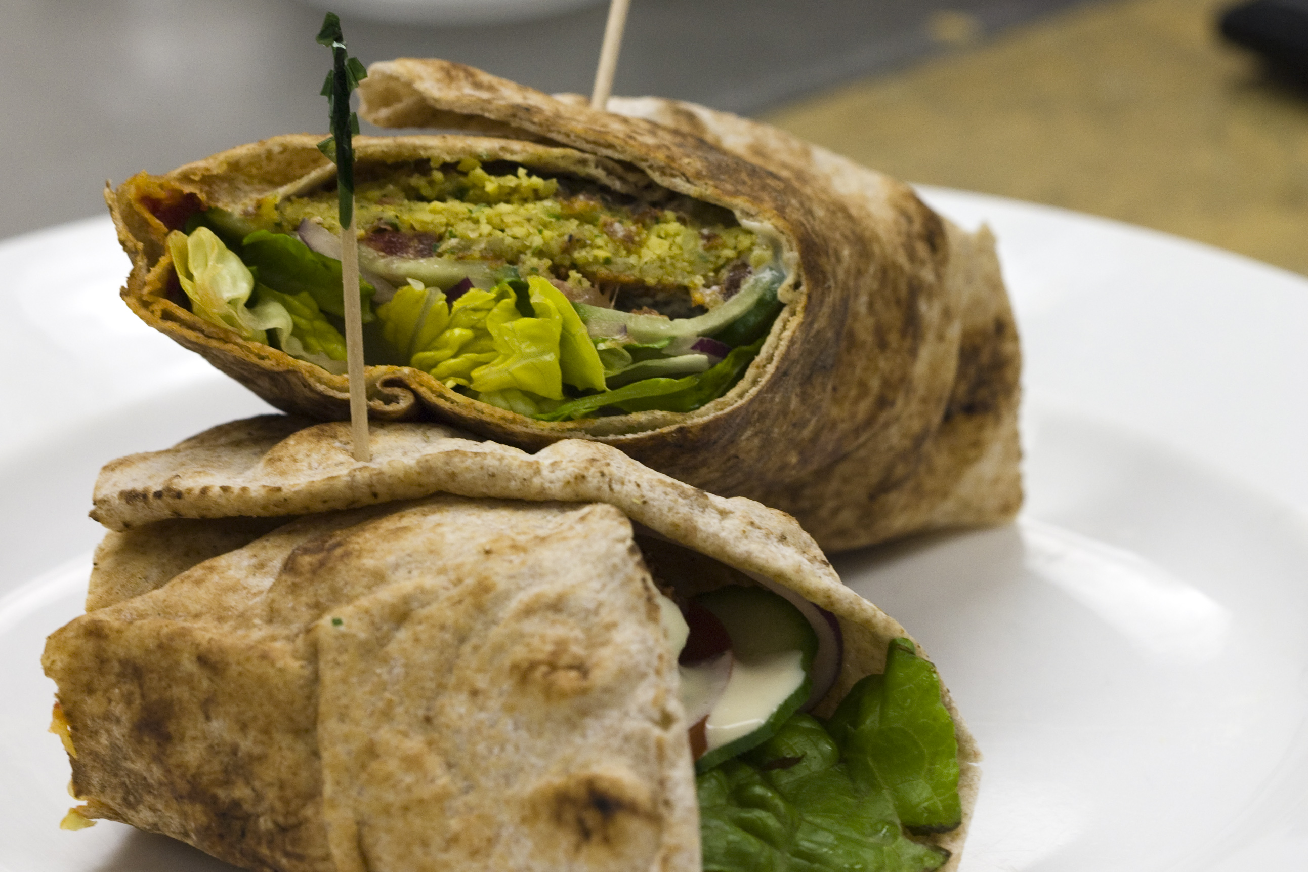 Falafel - Mondays at Il Forno